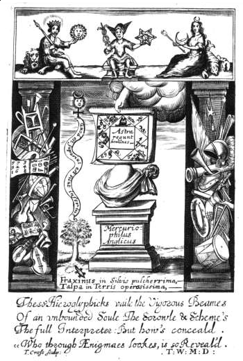 Re-upload of :Image:Fasicuculus chemicus frontispiece.tif in PNG format and with correct name. (from ca. 1630)